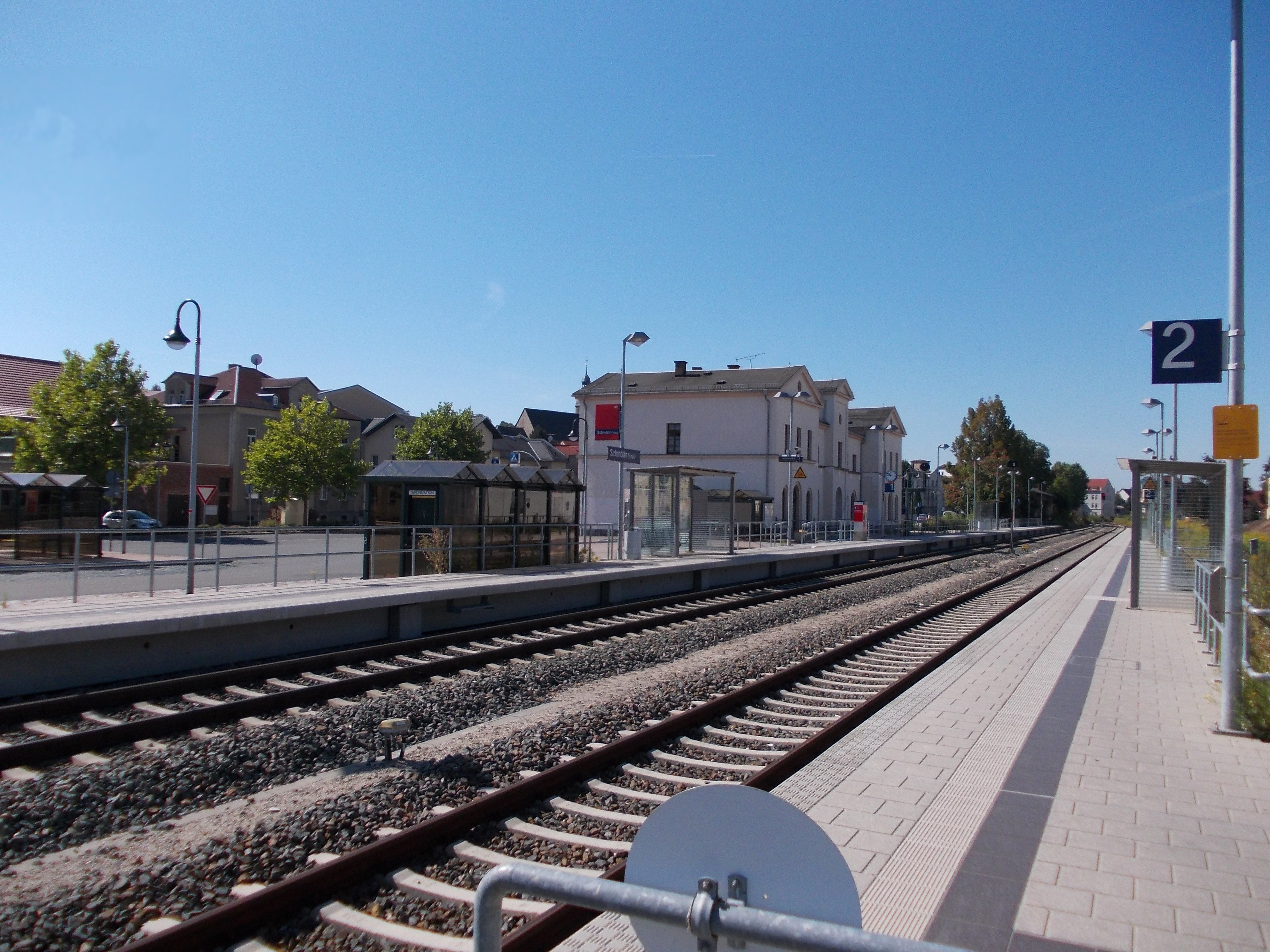 Schmölln train station (district of Altenburger Land, Thuringia)